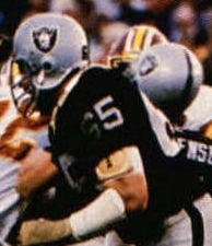 Los Angeles Raiders' guard Mickey Marvin pictured in an offensive play against the Washington Redskins in Super Bowl XVIII.